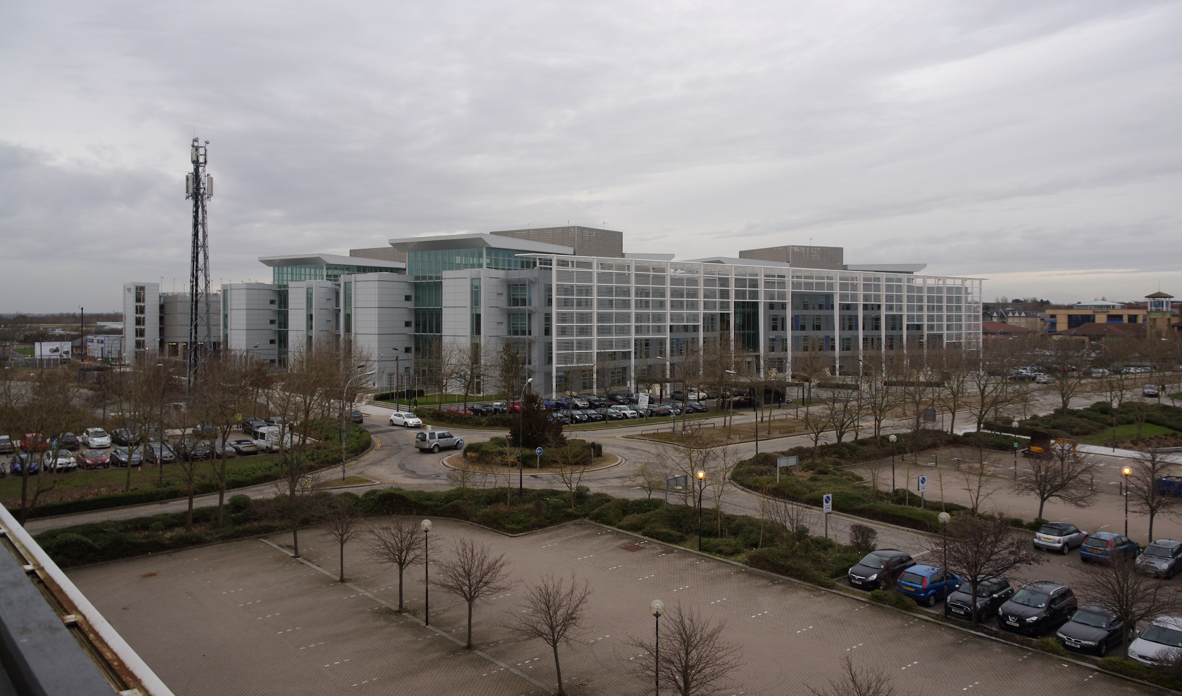 Looking towards Network Rail's "The Quadrant: MK" headquarters from the car park of Milton Keynes Central railway station.